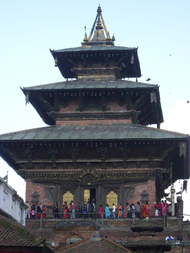 Hanuman Dhoka, Kathmandu, Nepal